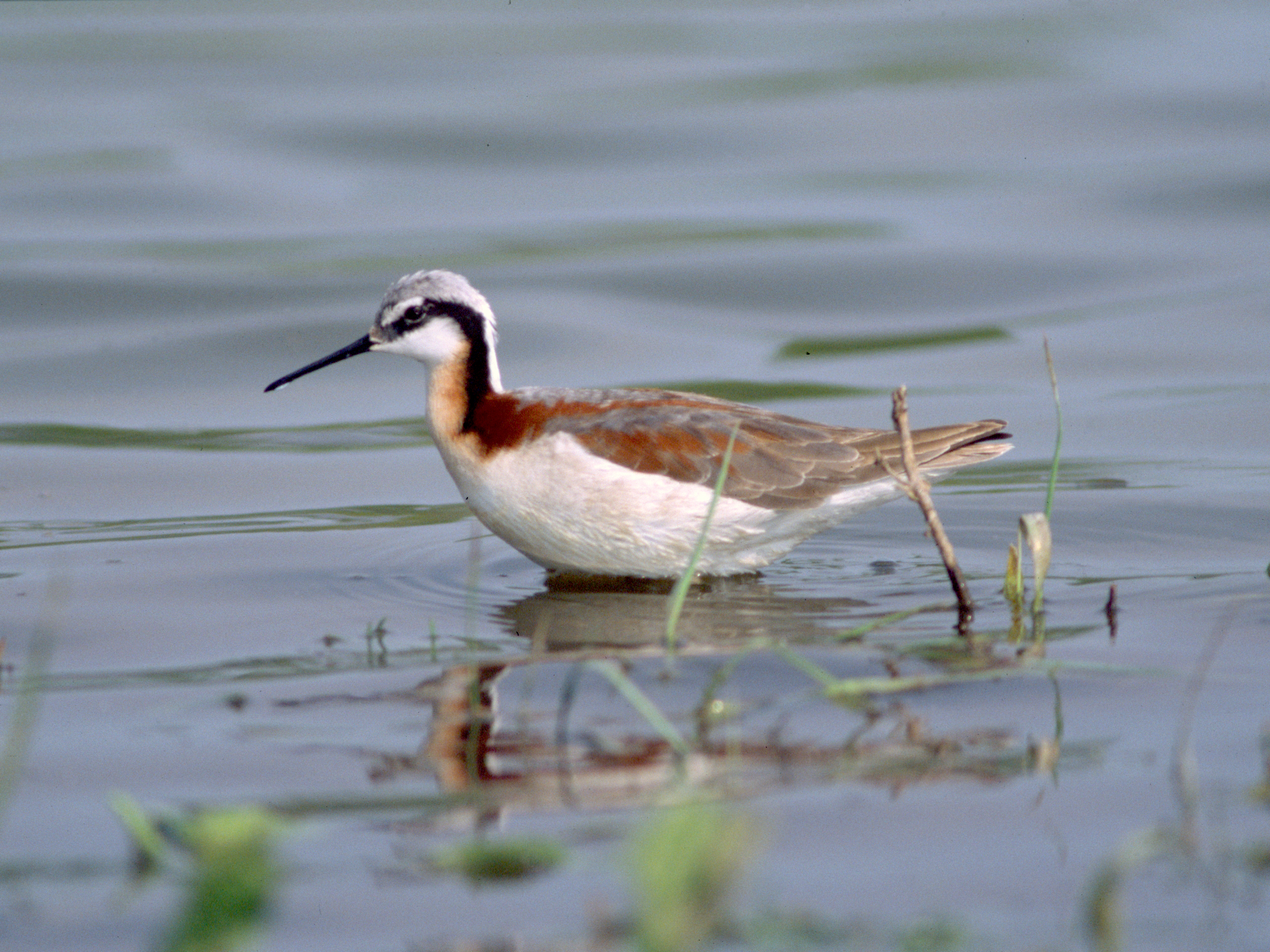 Wilson's Phalarope (Phalaropus tricolor) female in breeding plumage; Fairport, New York, USA. Original uploaded from Flickr account of Dominic Sherony